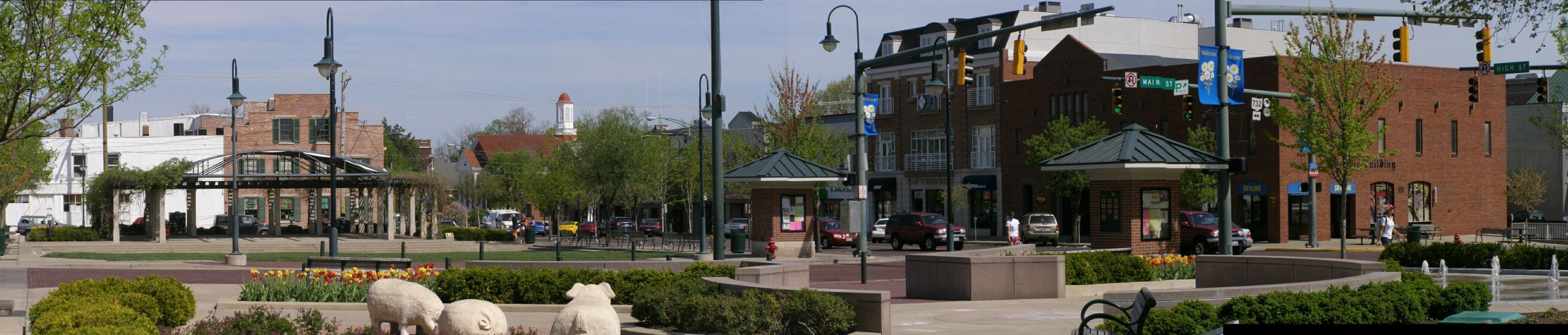 UPtown Oxford, Ohio from the public square